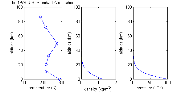 Example graphs of temperature, density, and pressure as a function of altitude for the US Standard Atmosphere Model. The data used to produce these graphs was obtained from a program I wrote in the MATLAB language. This program was based on a FORTRAN program written by Ralph Carmichael of Public Domain Aeronautical Software. References